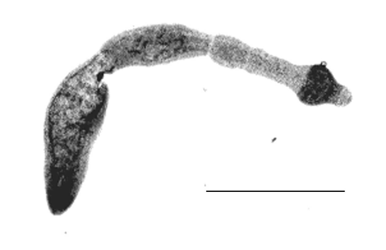 Echinococcus multilocularis isolated from a fox in Hungary. Scale bar: 0.5 mm.